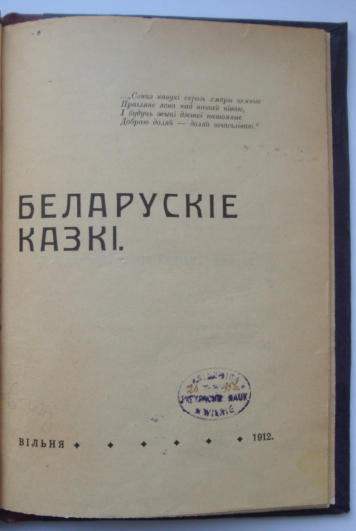 titlepage of a book "Беларускіе казкі" (1912), Vilno city, Russian empire